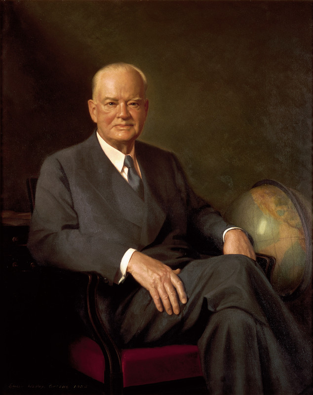 Official presidential portrait of Herbert Hoover; it replaced the previous official portrait (painted by John Christen Johansen in 1941) by Hoover's request.